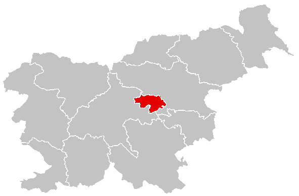 map representing the Zasavska statistical region of Slovenia modified from File:Slovenian-regions-obalnokraska.png